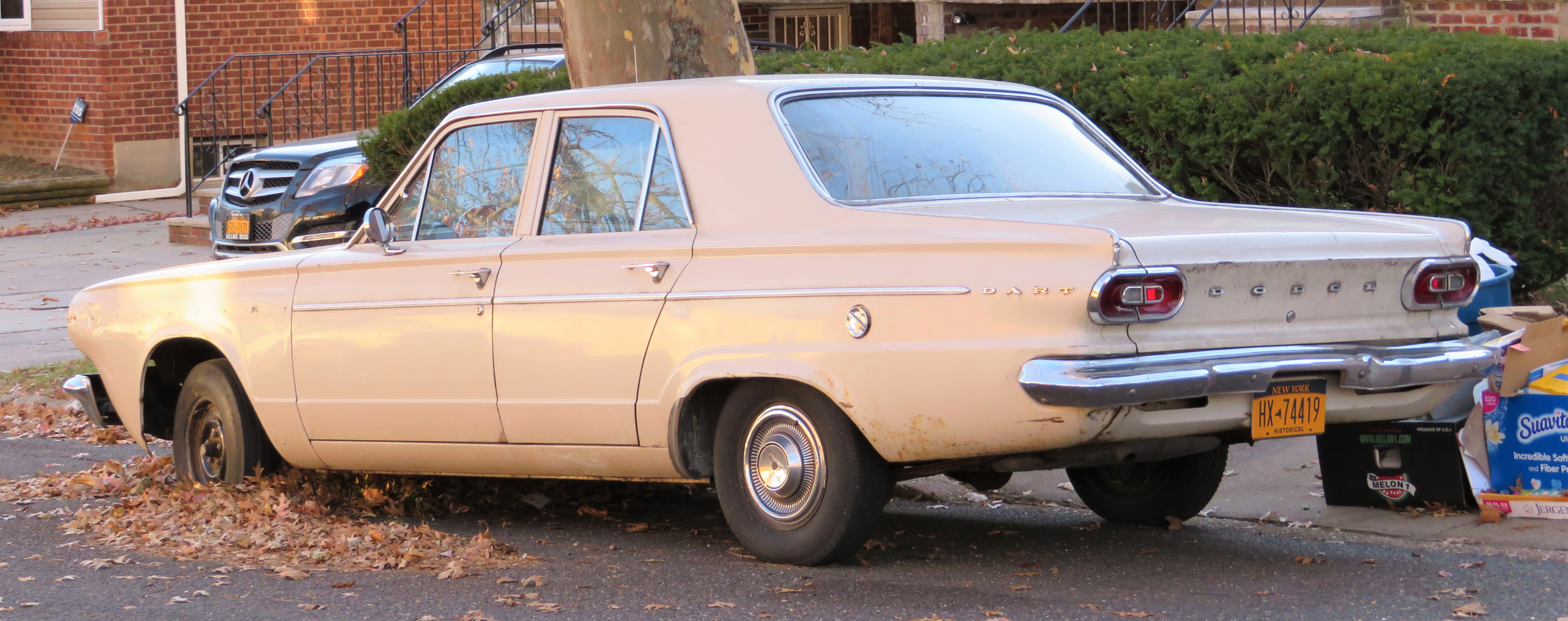 In Queens, New York.